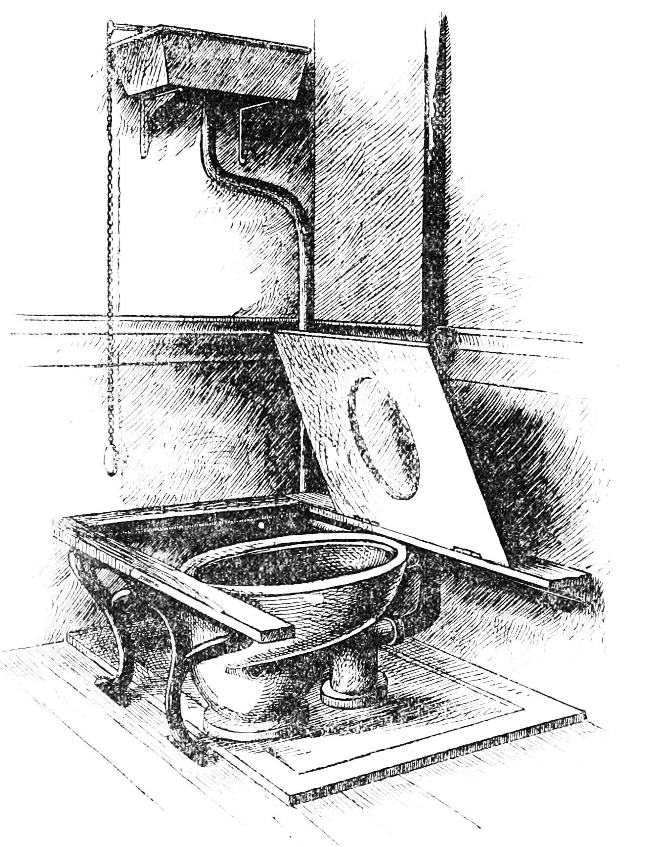 Late 19th century sanitary water closet and drainage